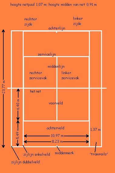 Official divisions and dimensions of a tennis court (in Dutch).